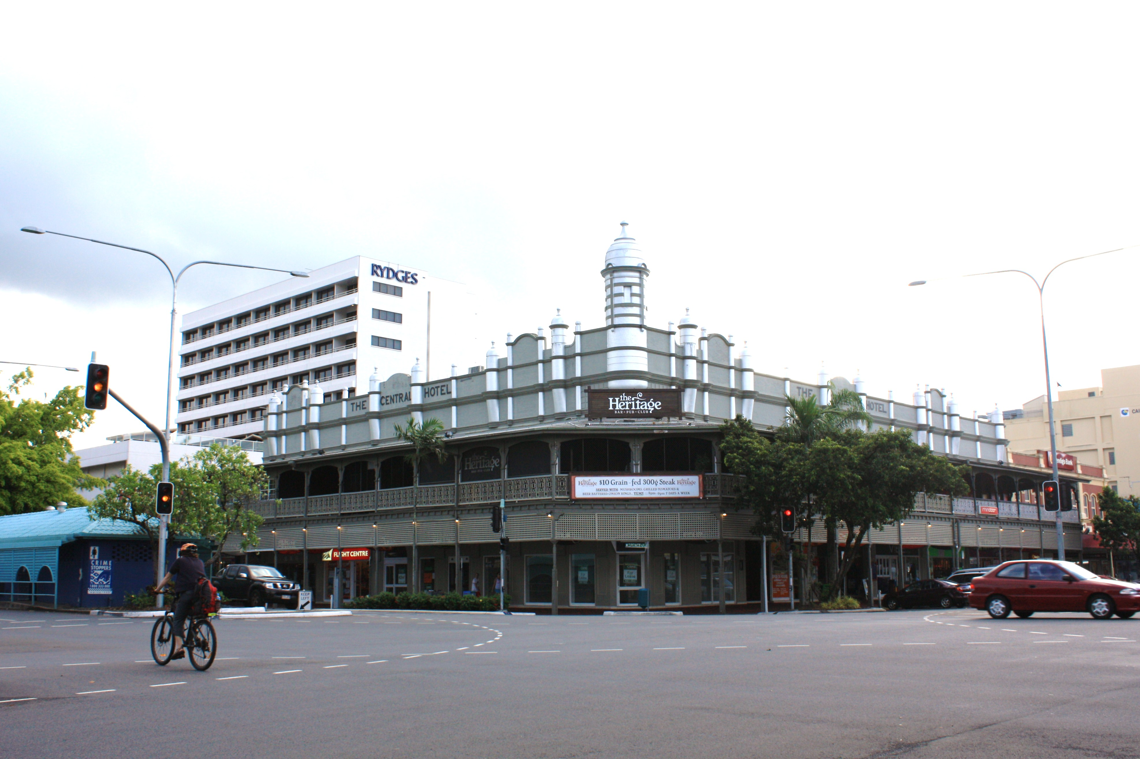 Central Hotel, Cairns, Queensland.